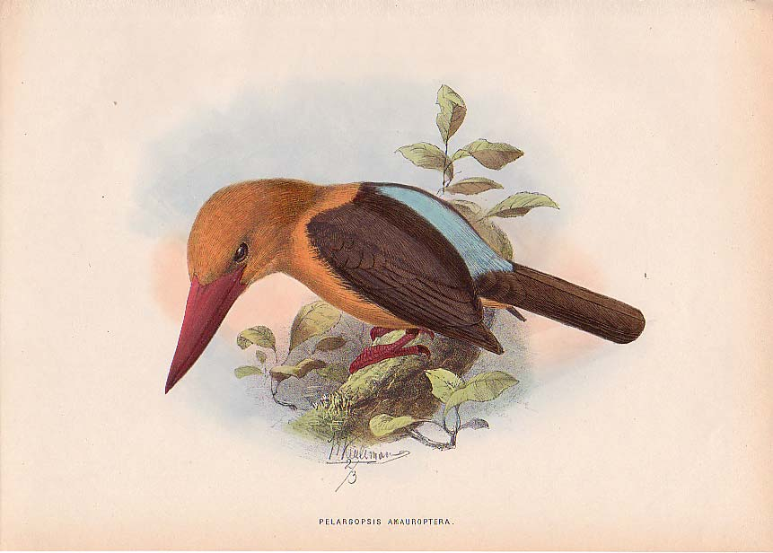 Pelargopsis amauroptera Kingfisher by Keulemans